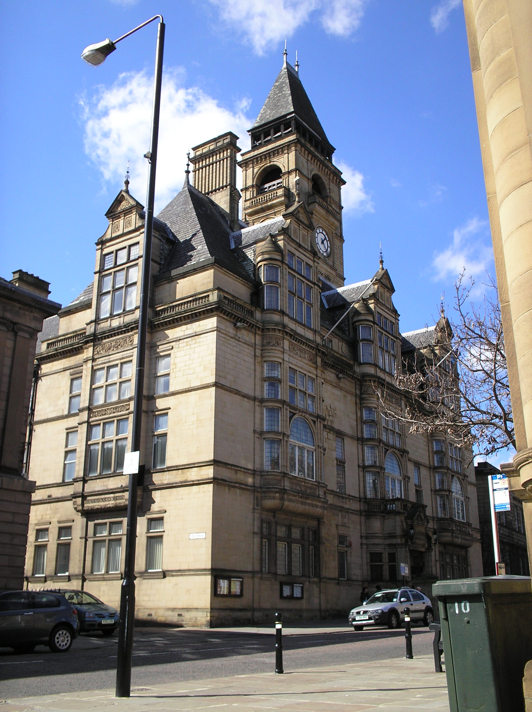 self taken, 31.3.06 This is Wakefield Town hall. It is not the HQ of Wakefield Metropolitan District Council, which is based in County Hall.